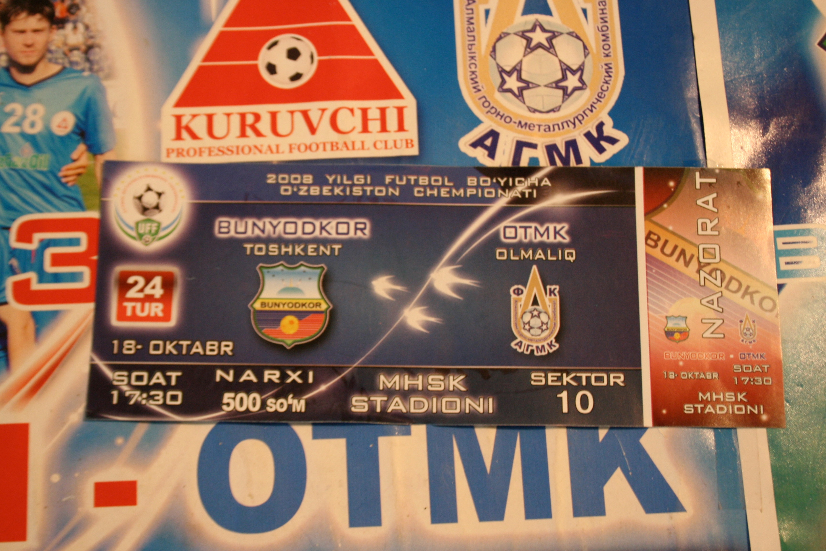 Bunyodkor - Olmaliq FK poster over an old one, with the former name of the club, Kuruvchi.